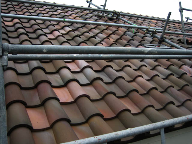 japanese roof tile （YOHEN_non glazed tile)